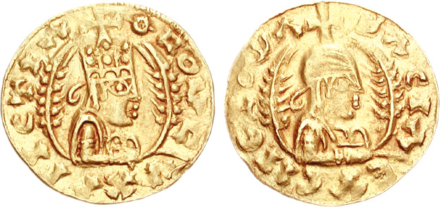 Coin of the Axumite king Nezool, around AD 450